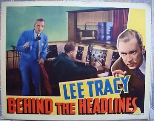 Poster for the 1937 film, Behind the Headlines